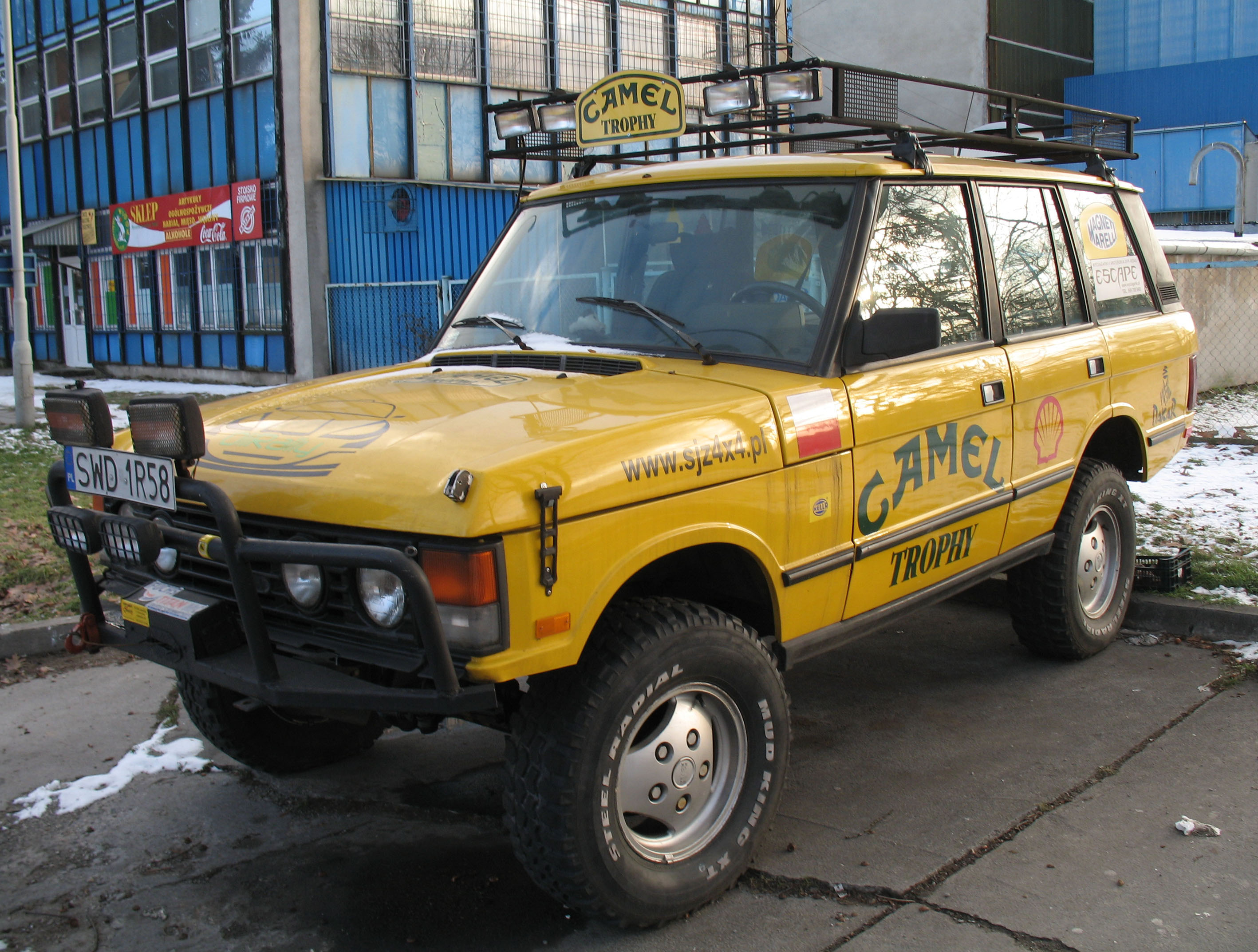 Yellow Range Rover Mk1 SUV Camel Trophy in Kraków, Poland. According to the photographer, it is not known if this is an original car from the Camel Trophy Rallye, or if it is just painted like that.